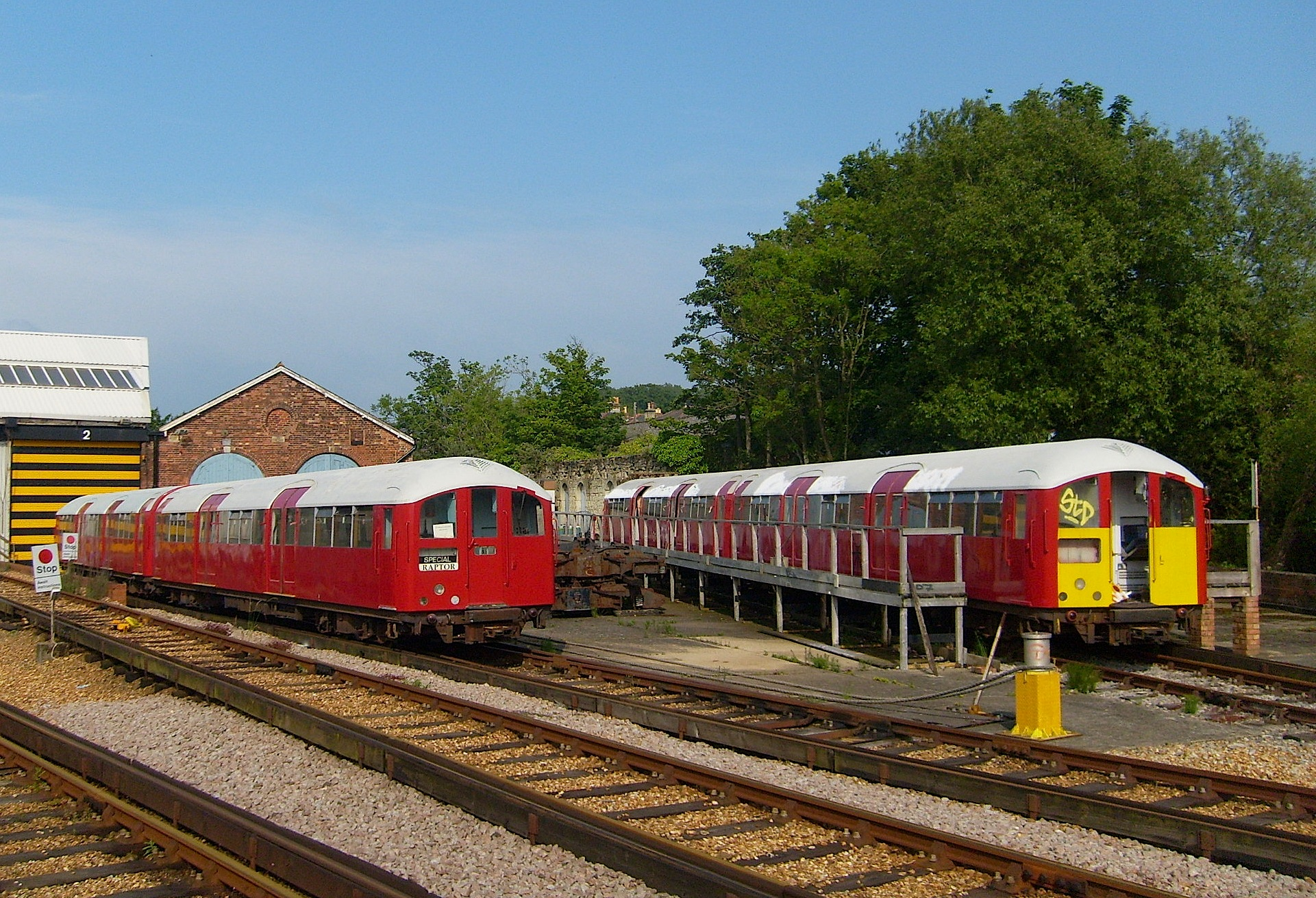 Island Line Class 483 No. 483002 and 483007 both in London Underground livery 'on shed' at Ryde Electric Depot